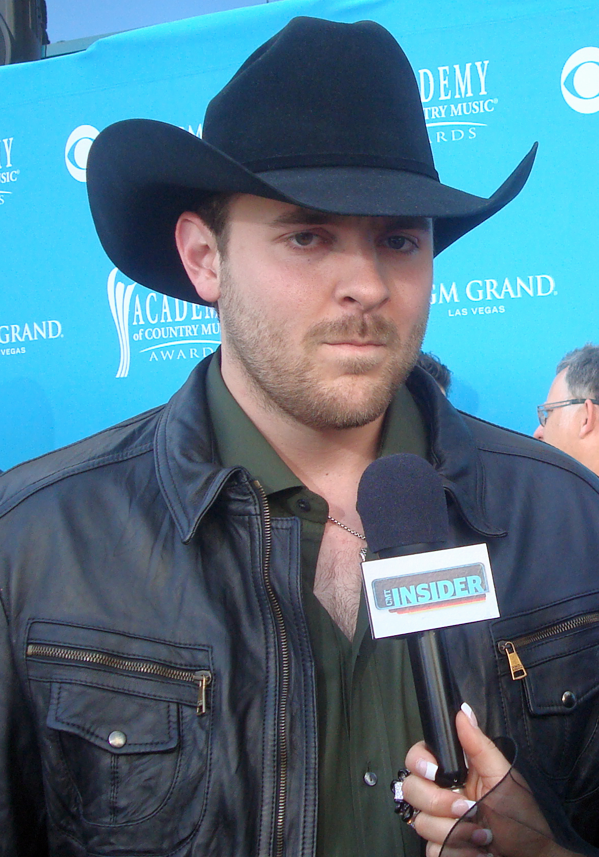 Chris Young at the 45th Annual Academy of Country Music Awards.